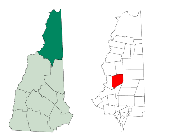 Map of a municipality in Coos County, New Hampshire